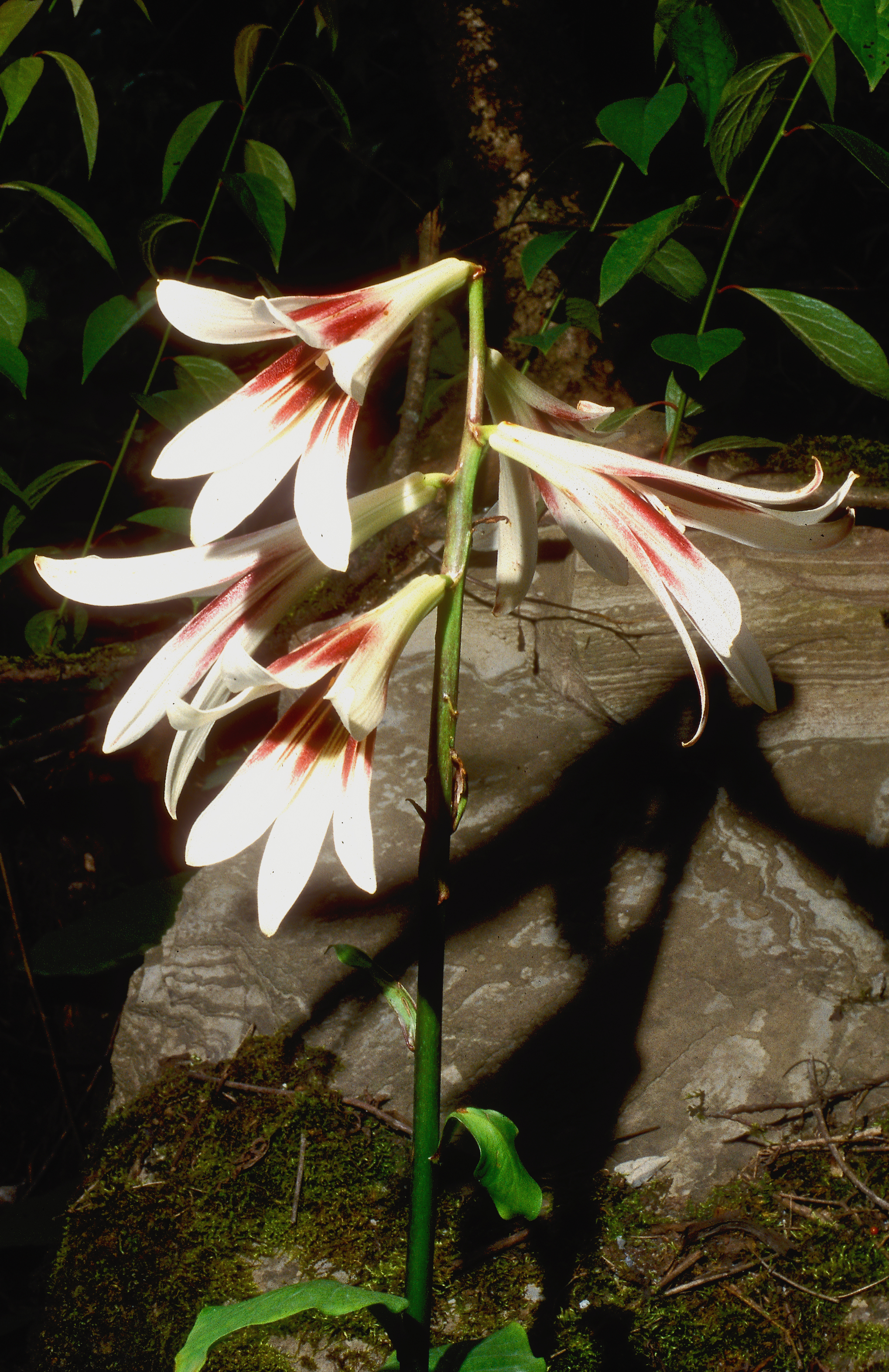 Cardiocrinum giganteum in habitat, Danyun canyon, Sichuan, China